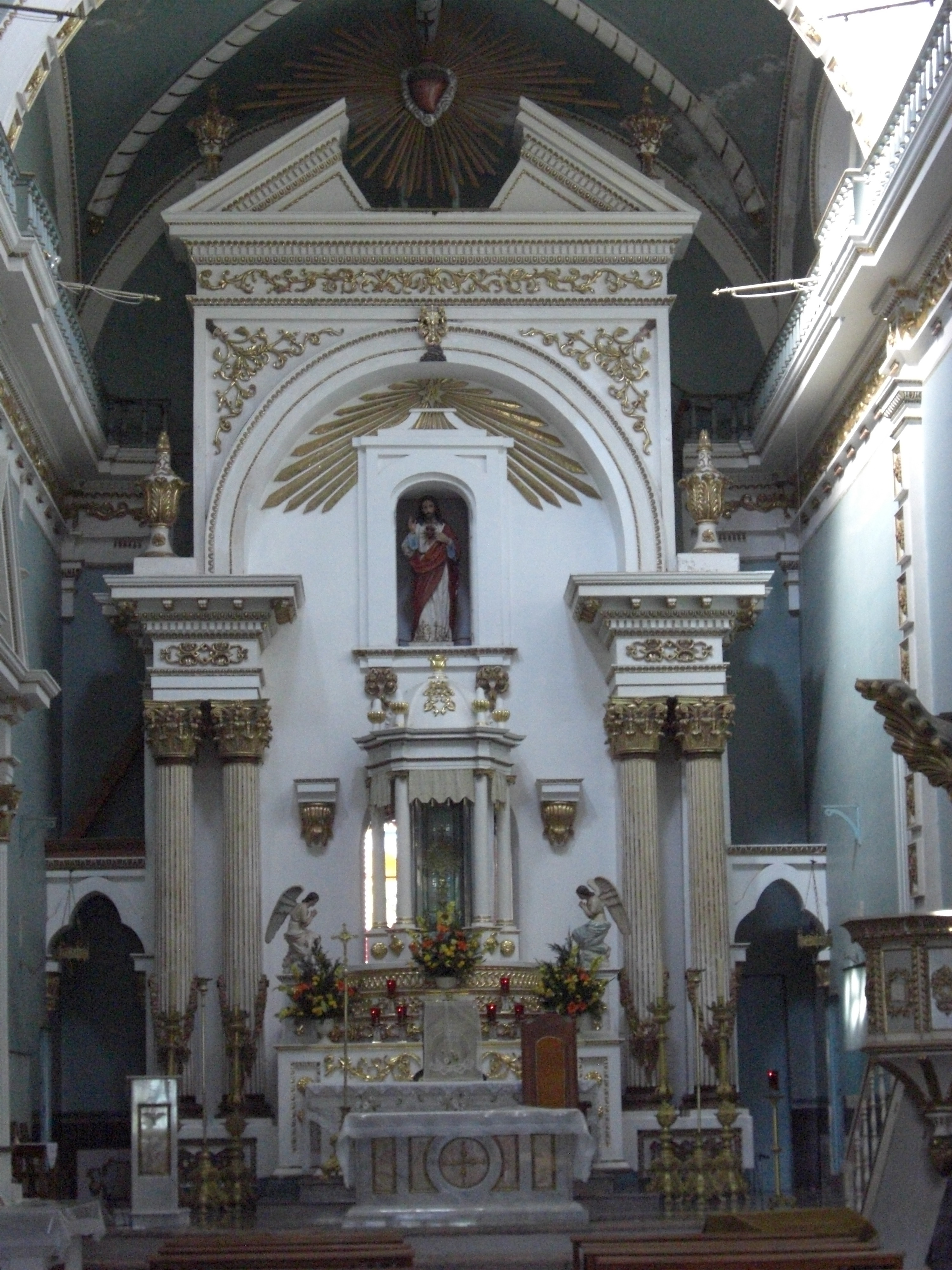 Santuario del Sagrado Corazon